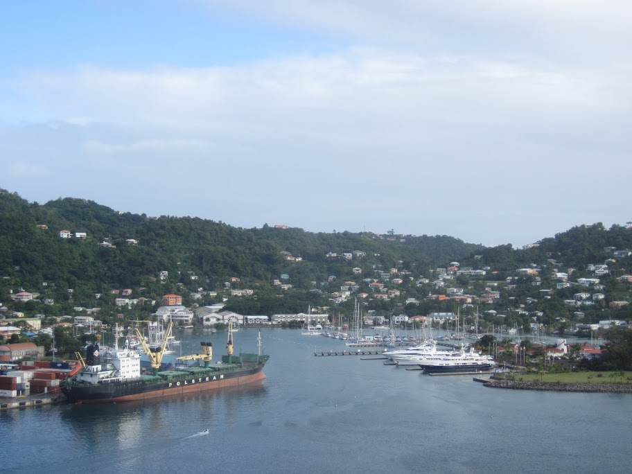 View of Saint George's inner harbour from Fort George